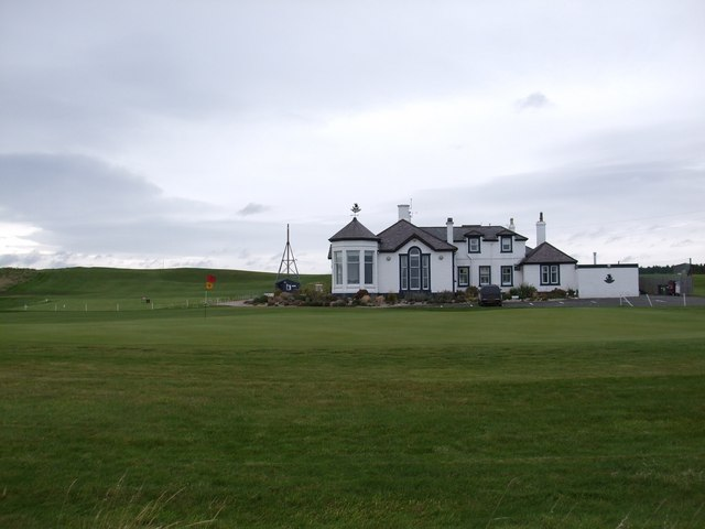 The club house at Elie Golf Course To the left of the club house can be seen the starters hut with the periscope sticking out the roof. Since the 1st green cannot be seen from the tee the starter uses the periscope, which came from HMS Excalibur to check that it is clearfor play to start. The course itself is maintained in immaculate condition. Adjacent to the 18 hole course is a sports complex with a fine 9 hole course, tennis courts, bowling green and pavilion cafe.